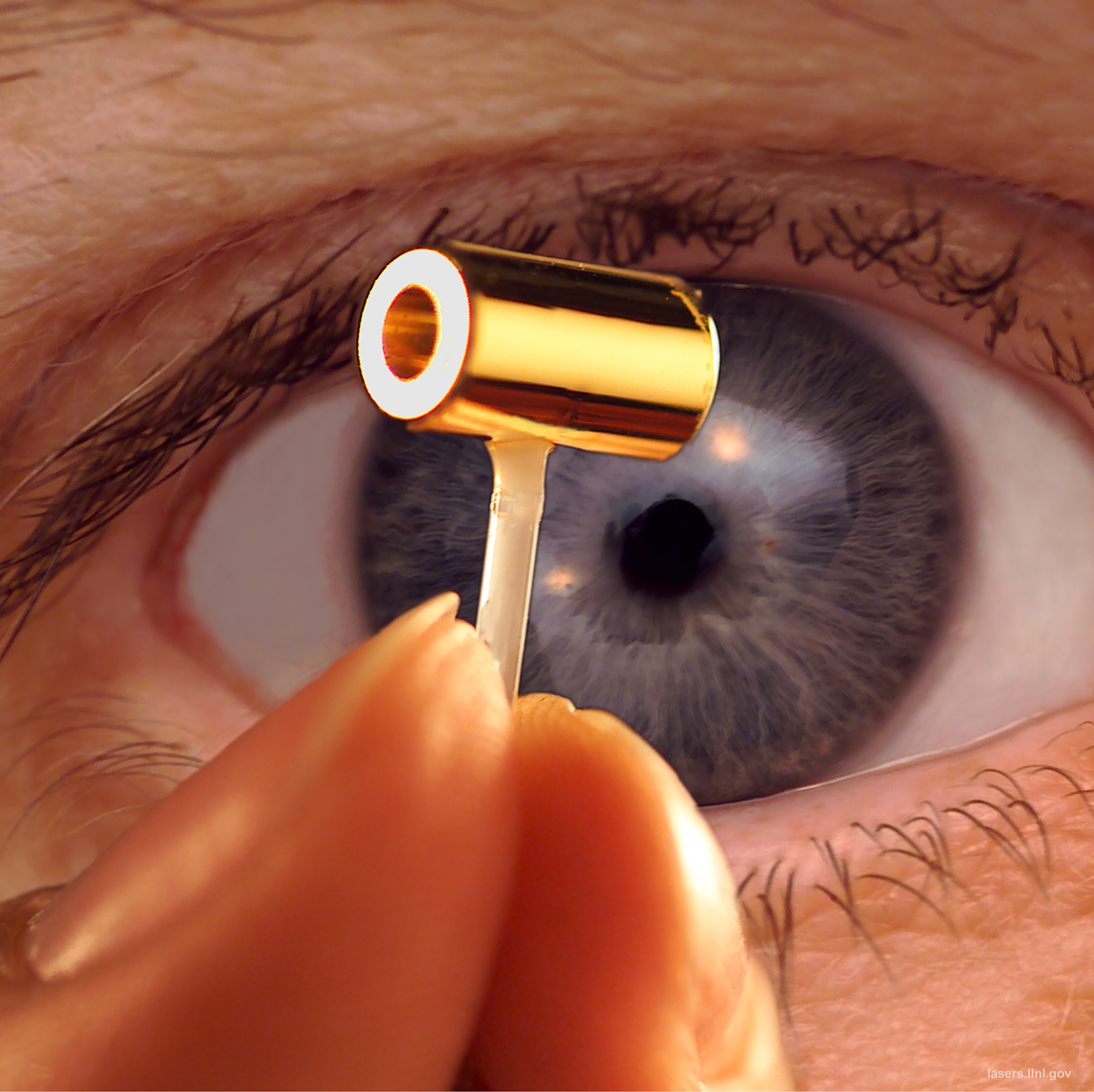 A hohlraum mock up to be used on the NIF laser.